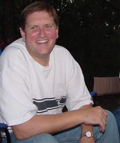 Chad Barbry